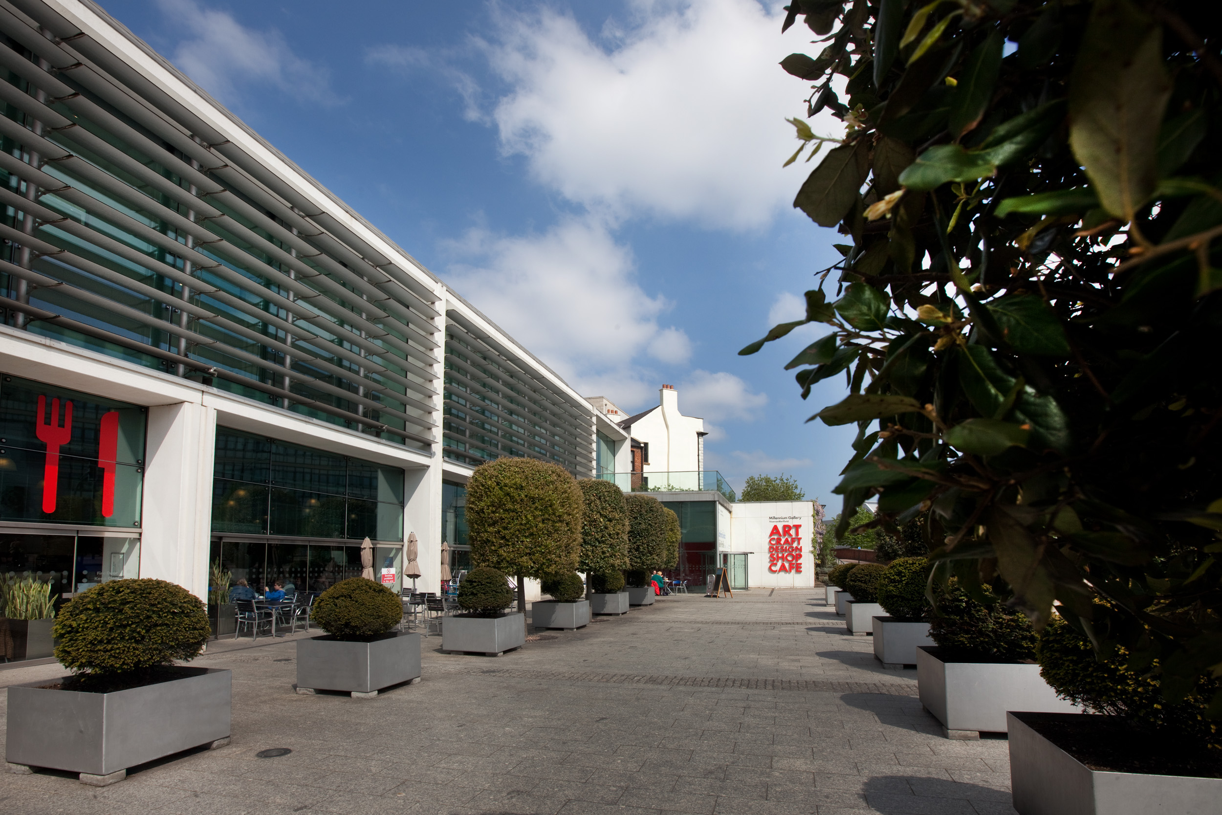 Photo of the Millennium Gallery, from Arundel Gate